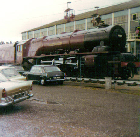 Duchess of Hamilton (no 6229) is pictured at Butlins Holiday Camp at Minehead, Somerset on 14th August 1974.